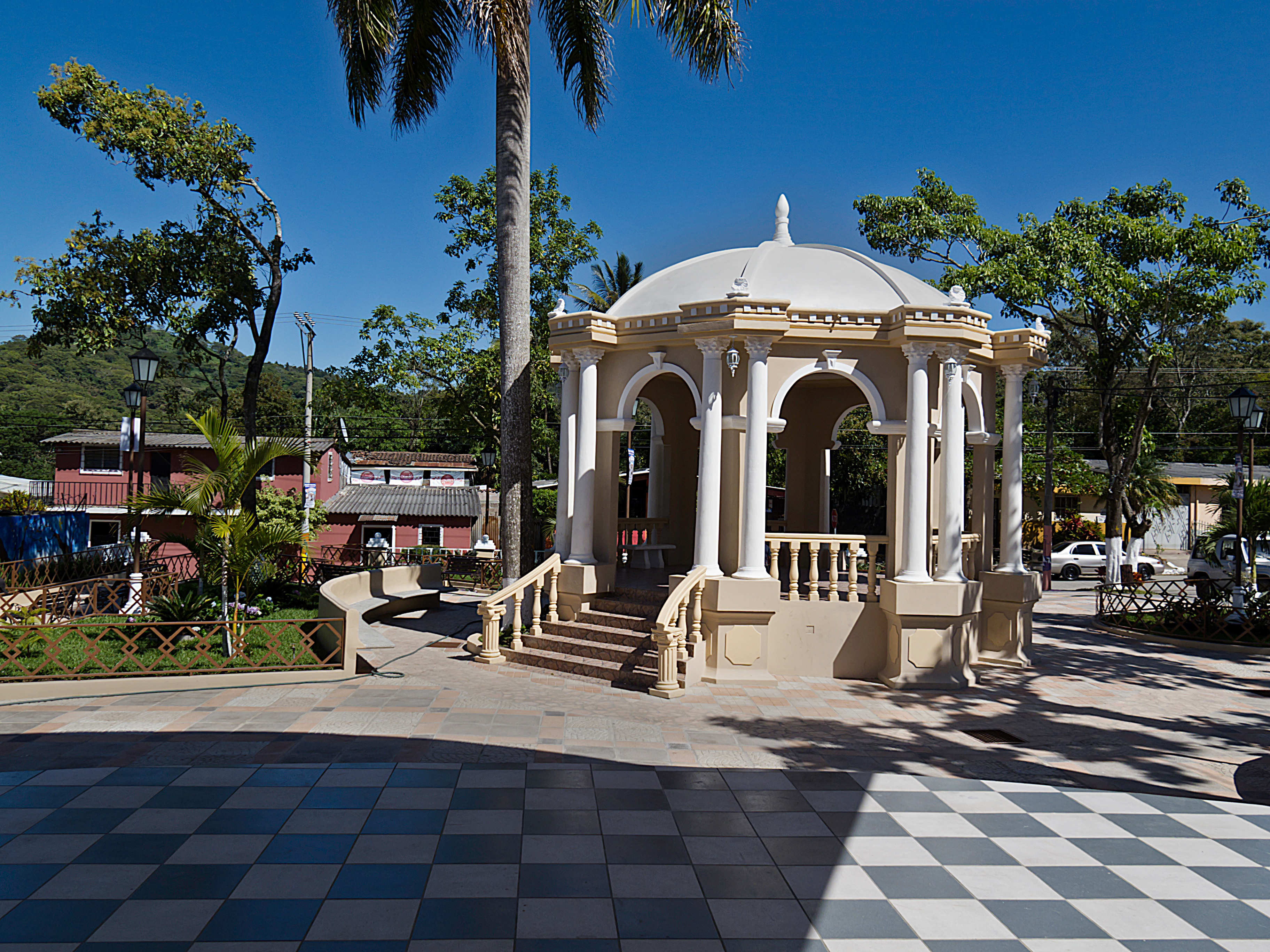 Municipal Park San Jose in Nuevo Custcatlan, La Libertad, El Salvador, dedicated Nov 2011